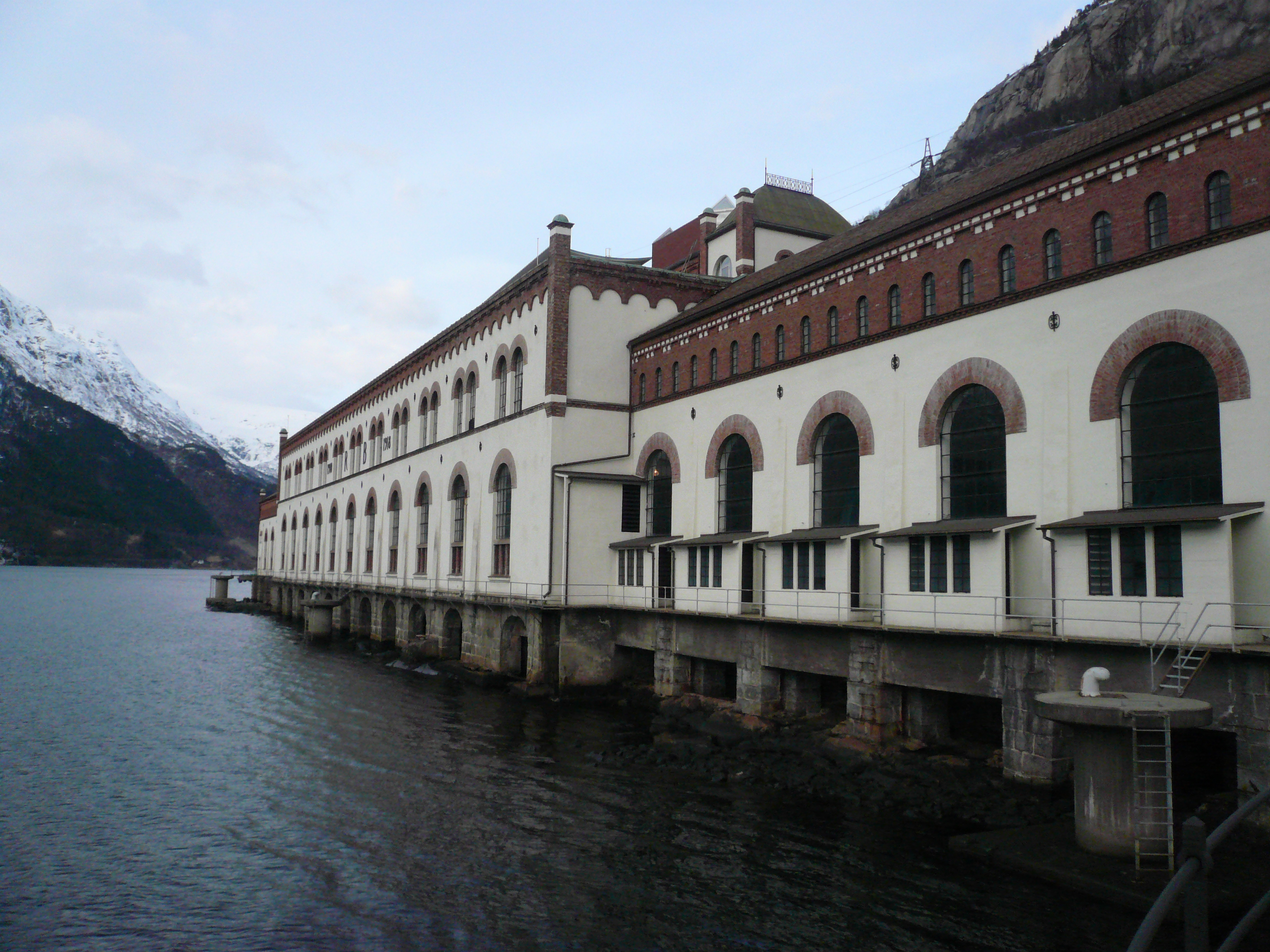 Tyssedal hydroelectric powerplant, exterior (1906)